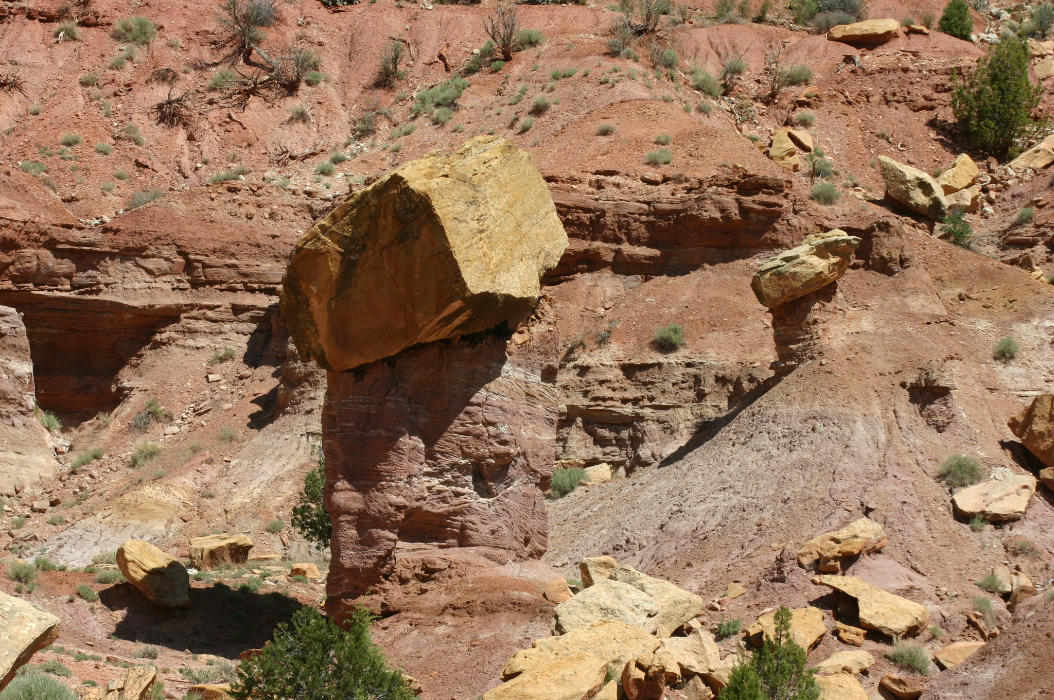 Ancient Rockfall protected rocks beneath the impact site from further erosion.